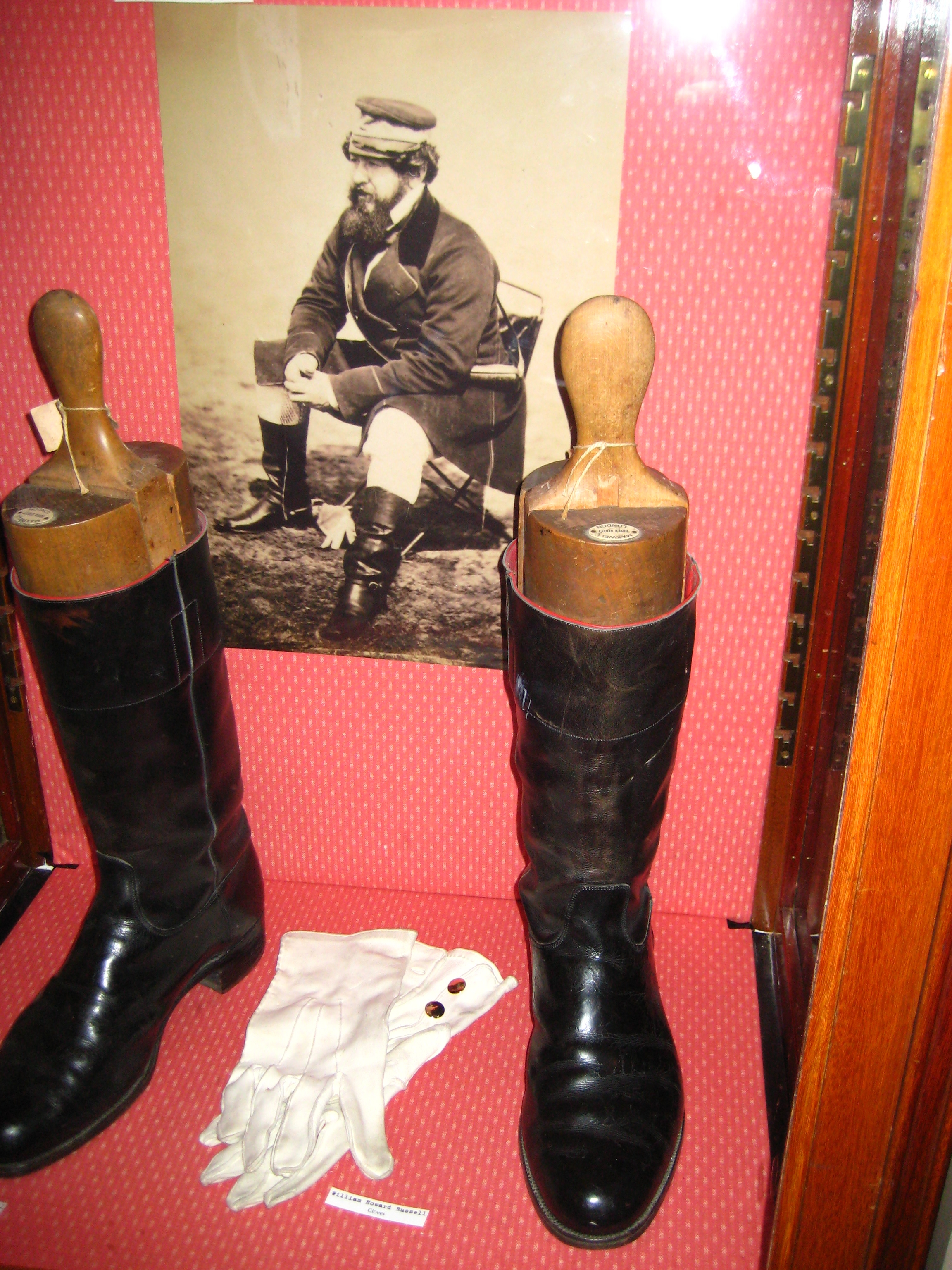 Display at the Frontline Club in London, England featuring what could be the boots of William Howard Russell, who was correspondent of the London Times during the Crimean War and one of the first war correspondents, but probably aren't.